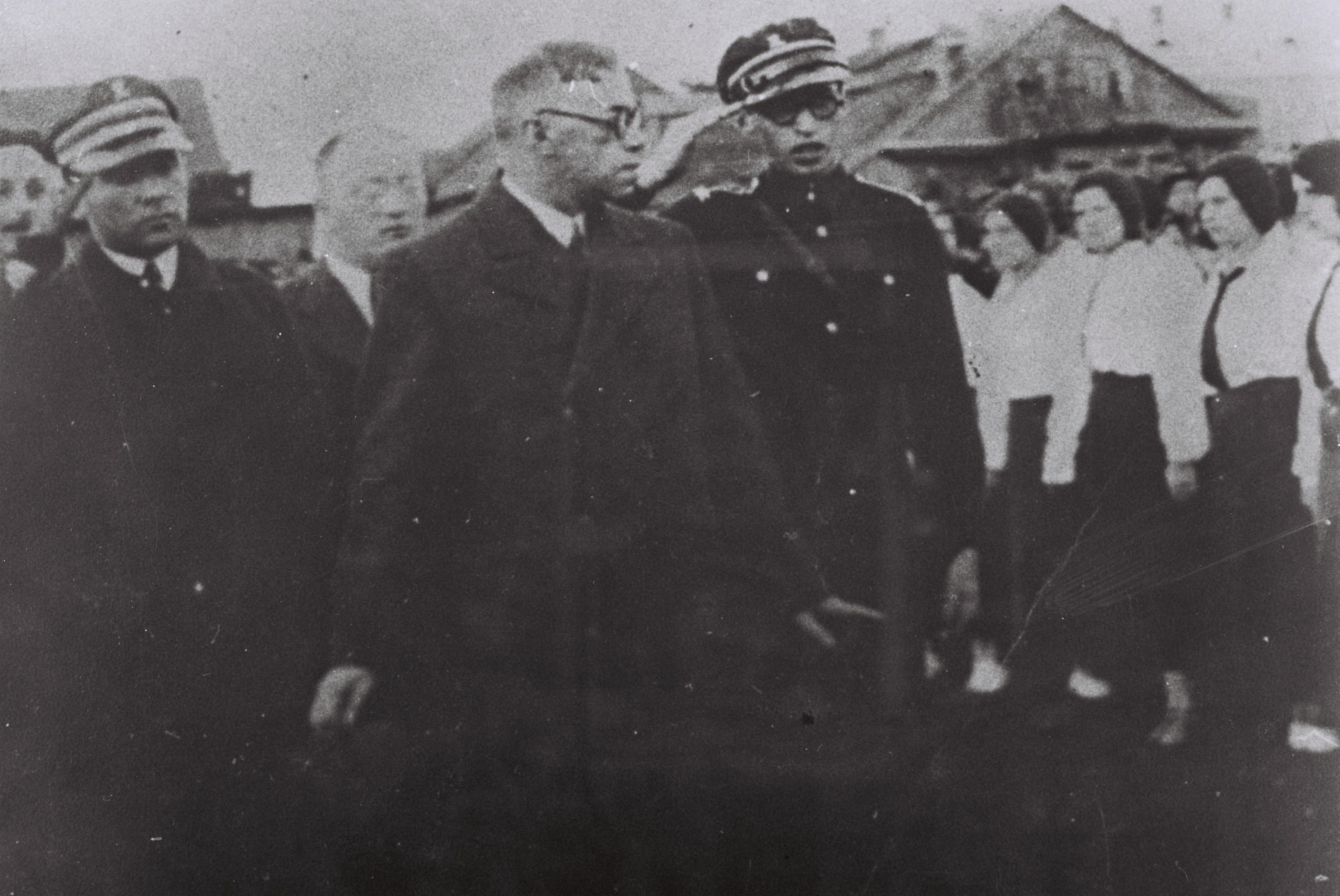 MENAHEM BEGIN (R) WITH VLADIMIR ZABOTINSKY (C) IN PINSK. מנחם בגין עם זאב ז'בוטינסקי בפינסק, פולין.